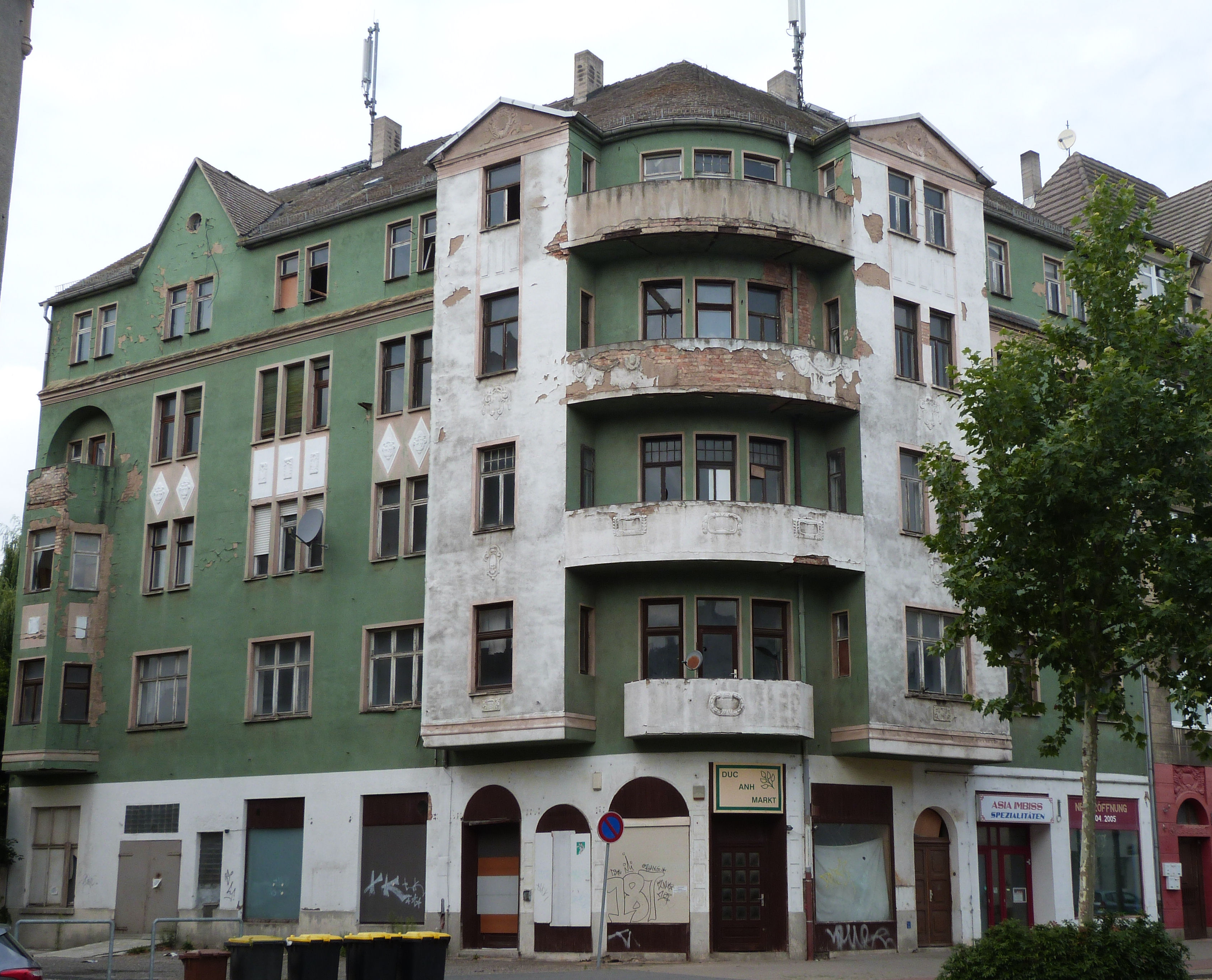 House No. 32, Merseburger Strasse in Weissenfels, Saxony-Anhalt